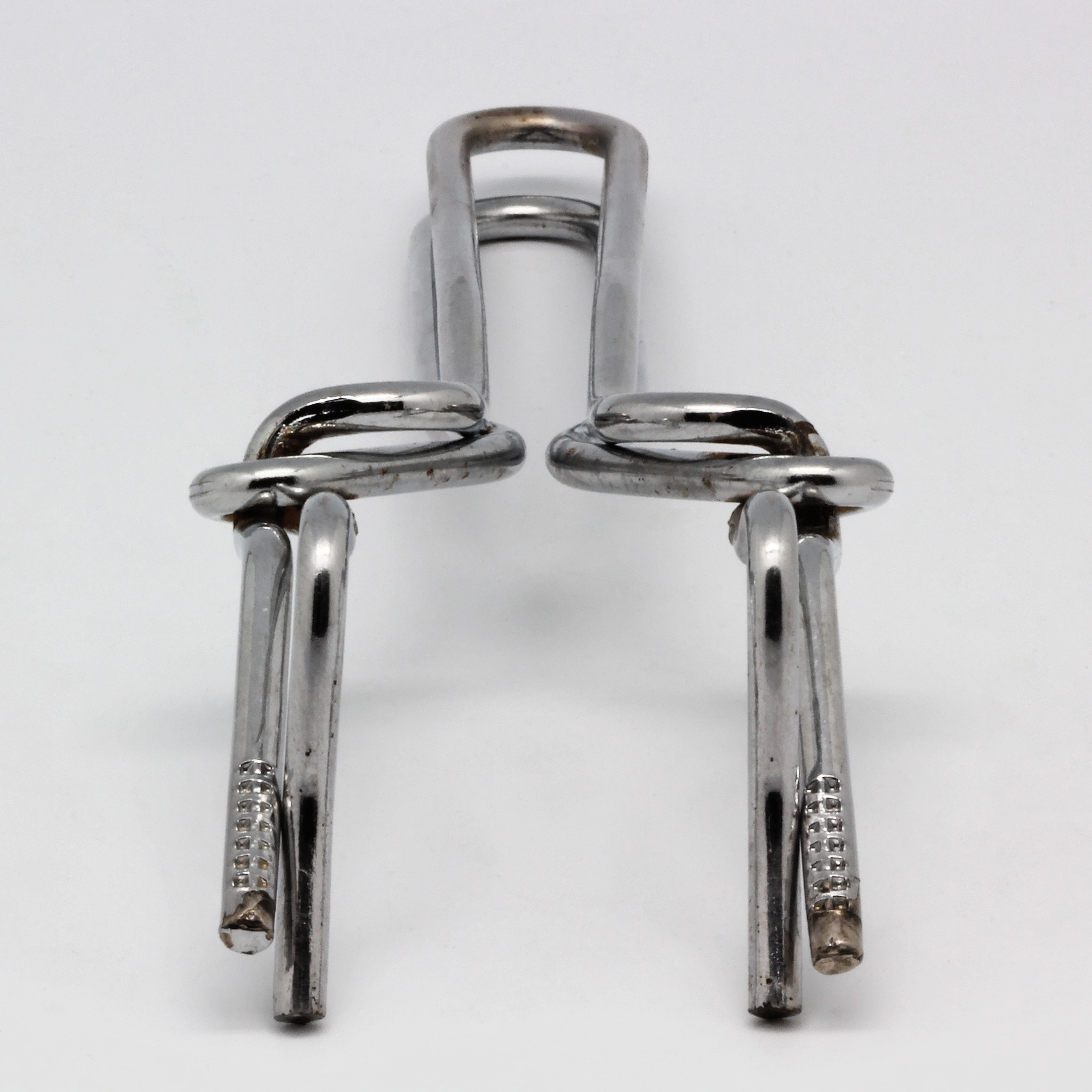 cookware pincers